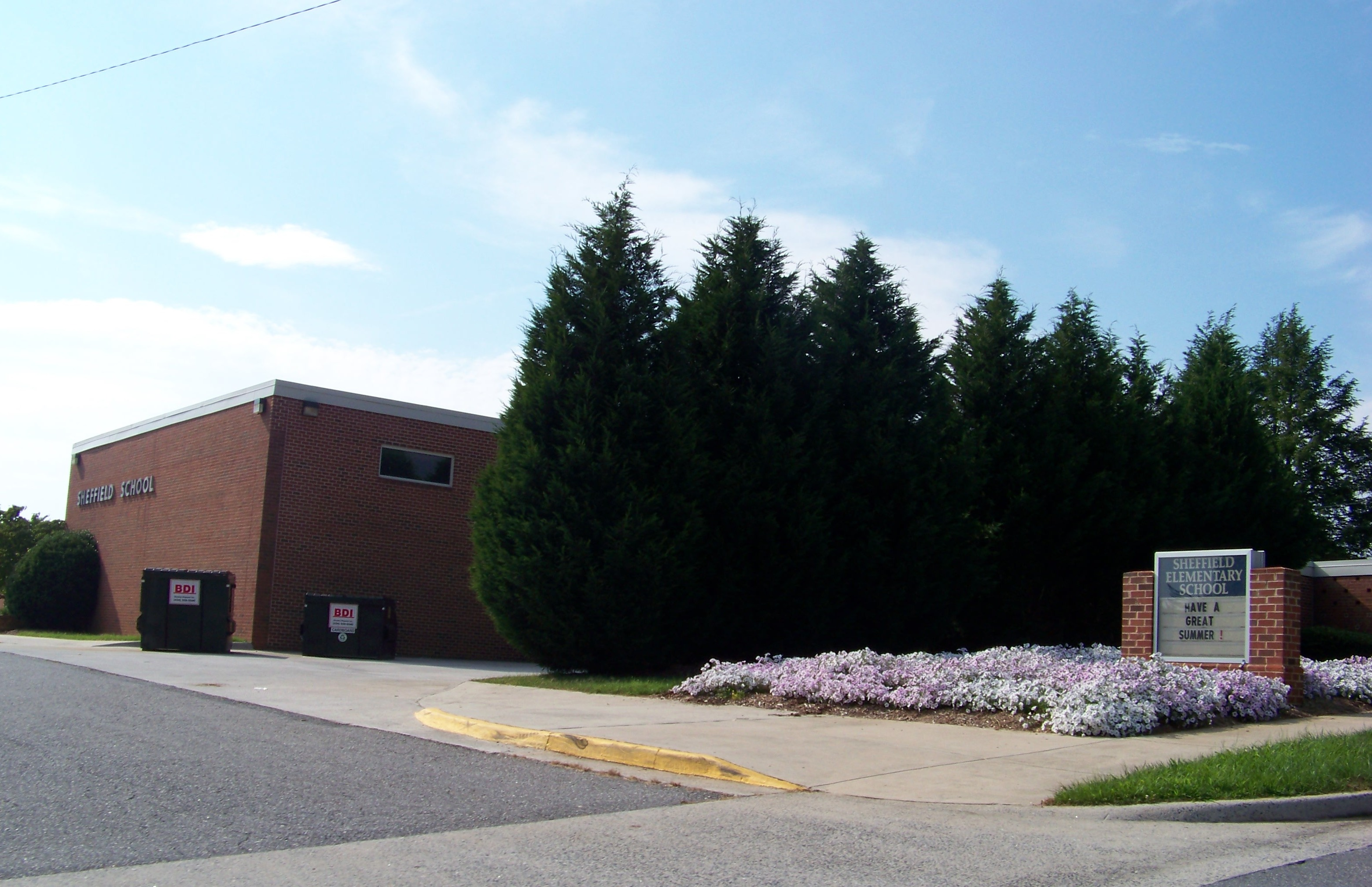 Sheffield Elementary School